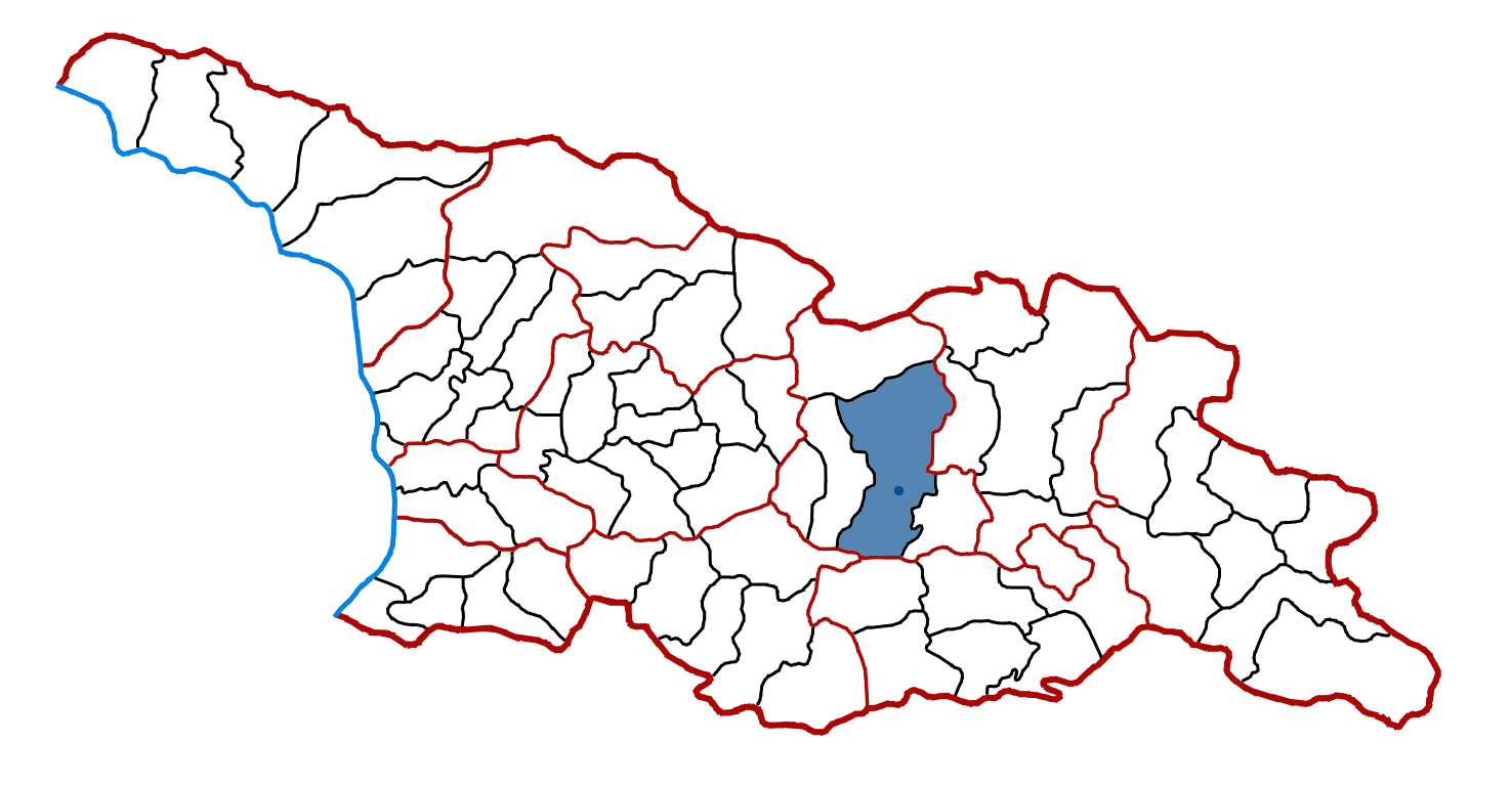 Location of Gori district in Georgia